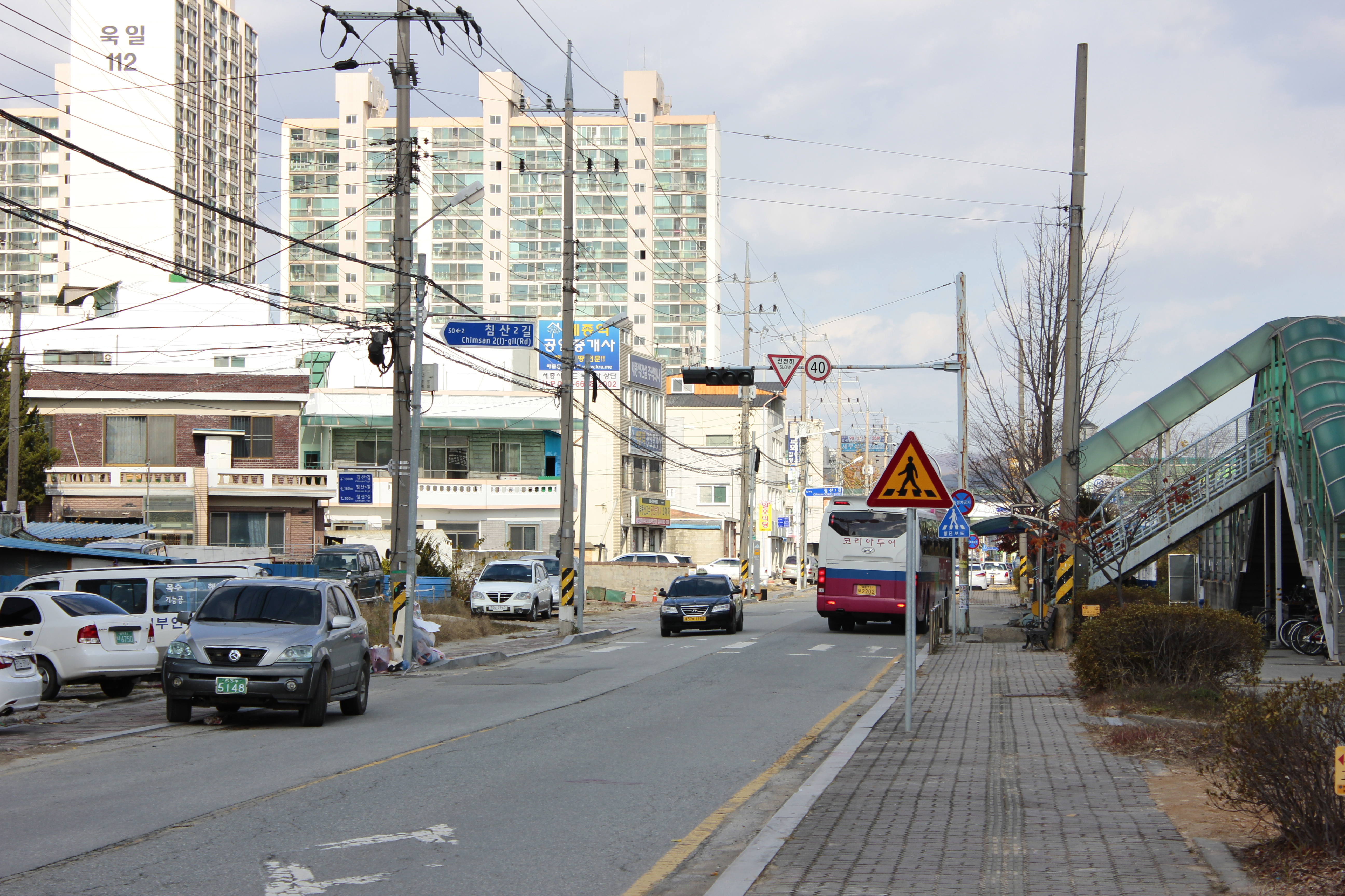 Chunghyeon-ro, Sejong